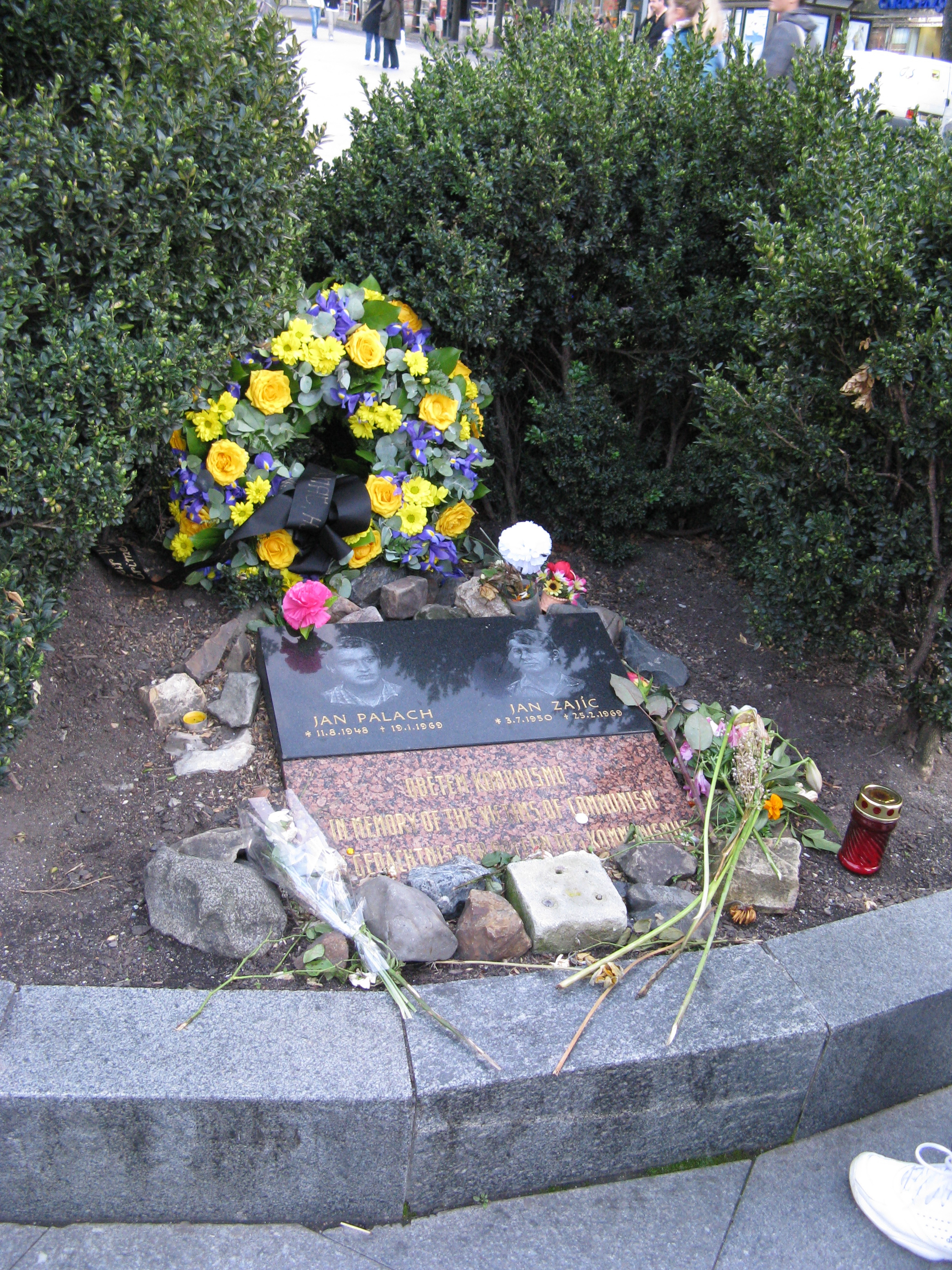 Plaque to Jan Palach and Jan Zajíc (Wenceslas Square).